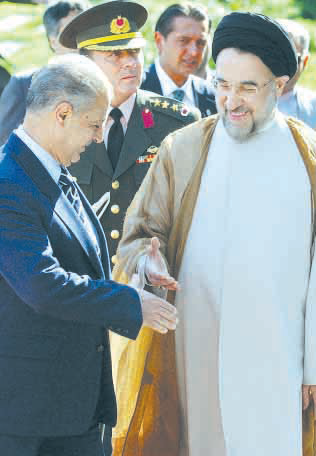 Mohammad Khatami and Ahmet Necdet Sezer -Tehran - July 17, 2002